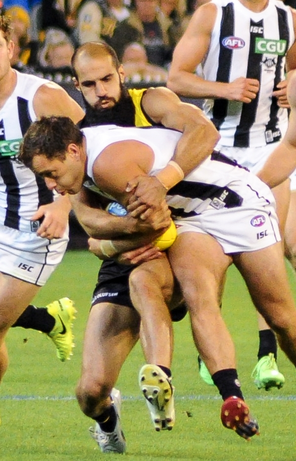 Bachar Houli tackling Jarryd Blair during the AFL round two match between Richmond and Collingwood on 30 March 2017 at the Melbourne Cricket Ground in Melbourne, Victoria.